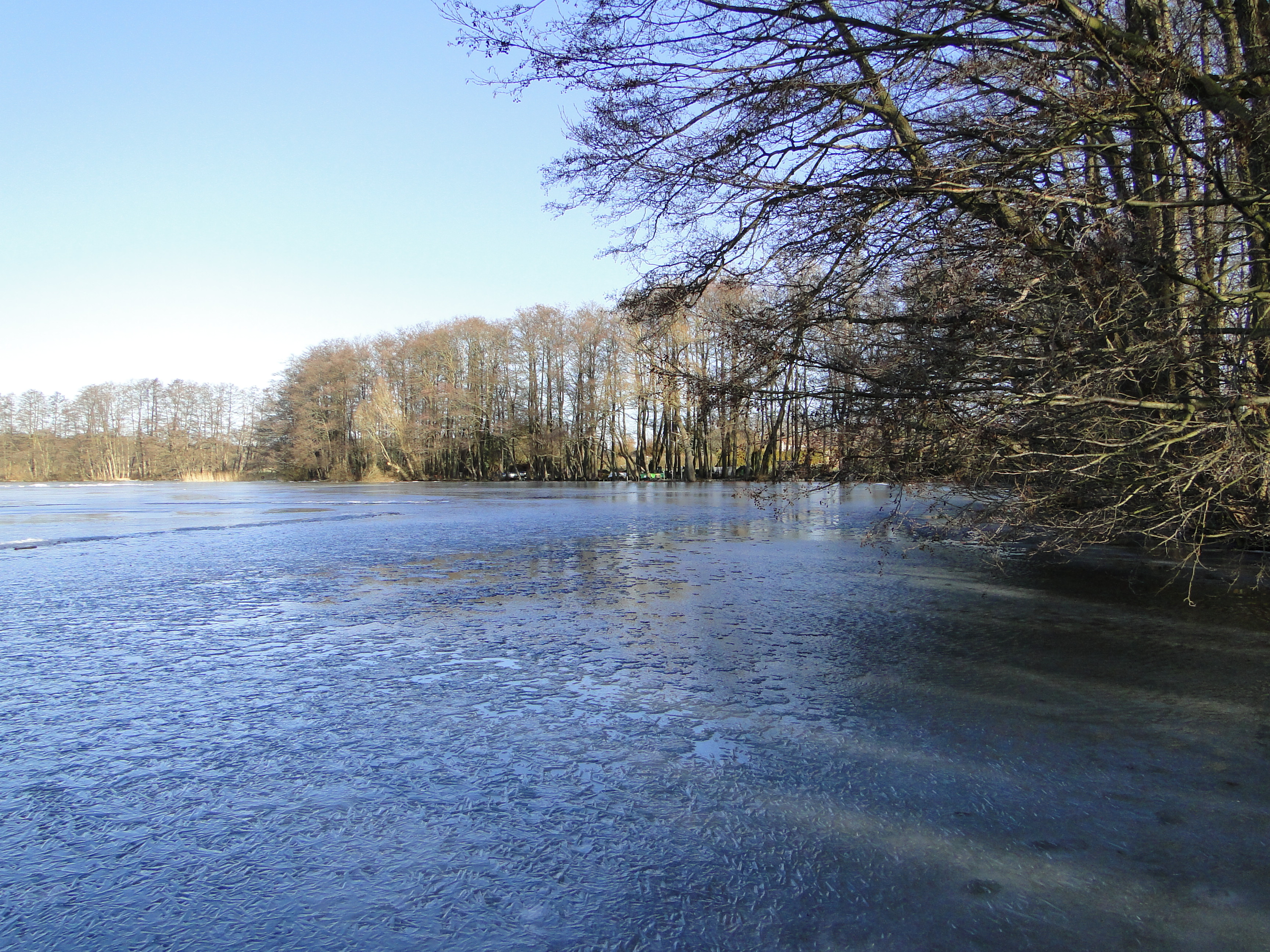 Frozen Dümmersee in/near Dümmer, district Ludwigslust-Parchim, Mecklenburg-Vorpommern, Germany